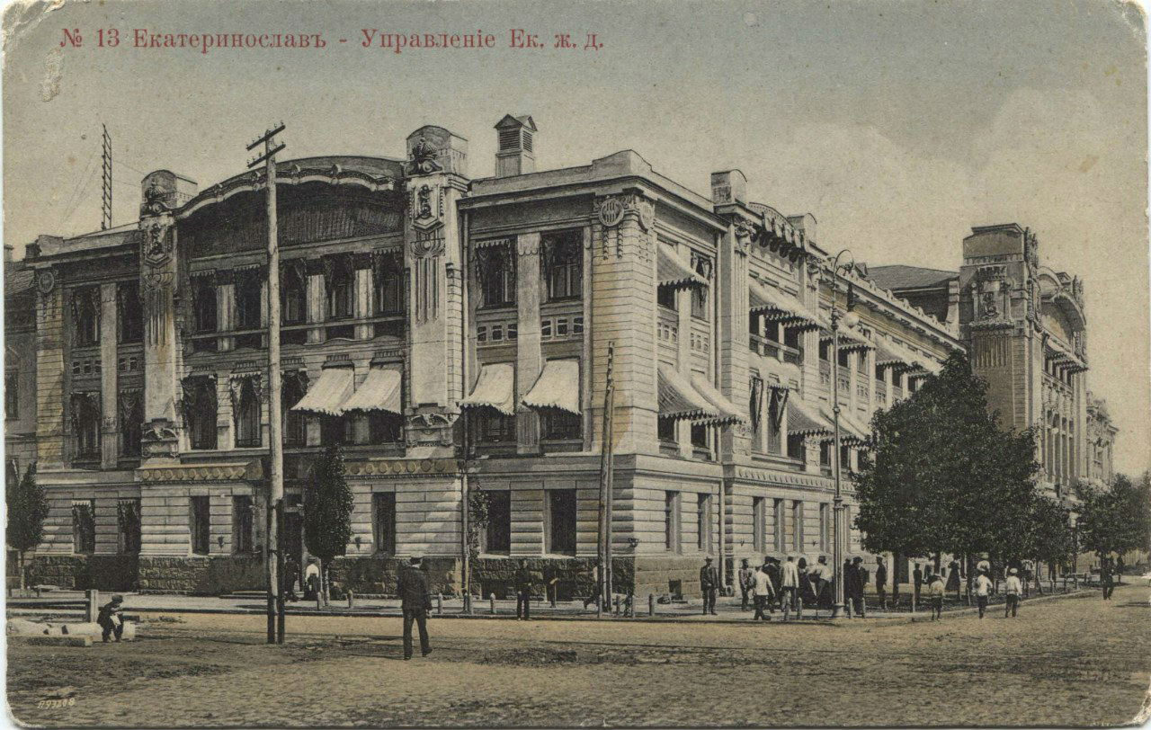 Фото начала 20 века.